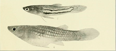 Extract from The freshwater fishes of British Guiana, including a study of the ecological grouping of species and the relation of the fauna of the plateau to that of the lowlands (1912) (14780012385).jpg